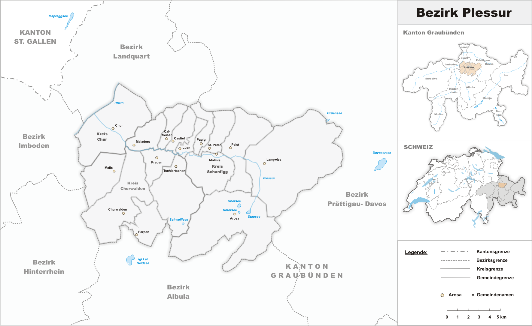 Municipalities in the district of Plessur until 2007